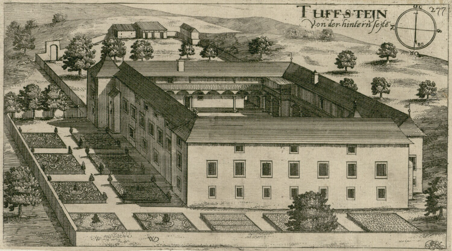 Tuštanj Castle